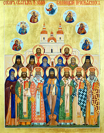 Diocese of Vinnytsia